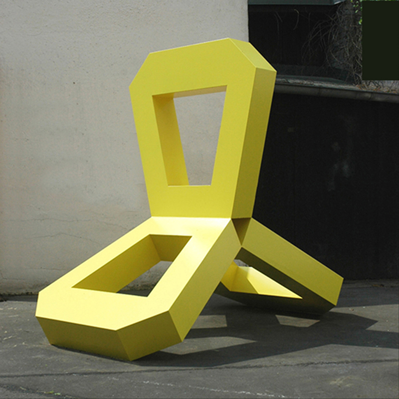 Butterfly: sculpture by Howard McCalebb, at DadaPost, Berlin, Germany